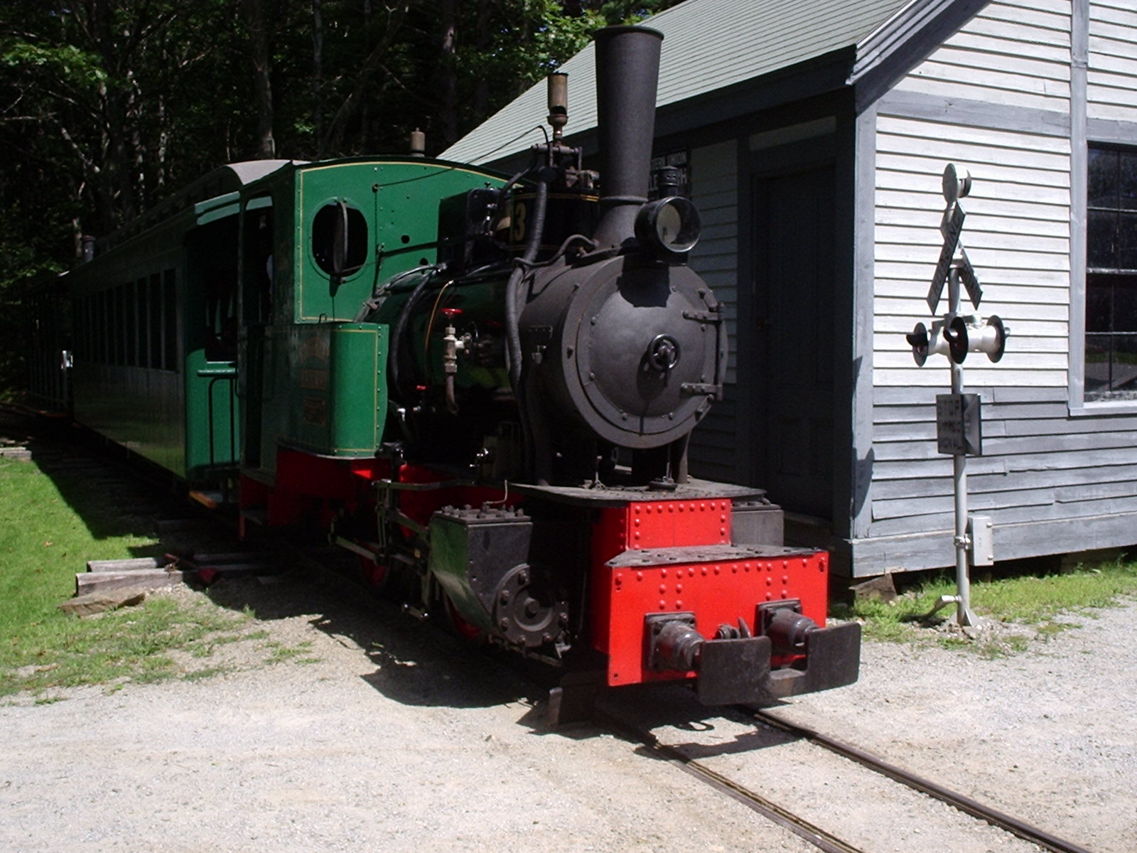 Photo by William J. Grimes Boothbay Railway Village location: Object location43° 54′ 10.61″ N, 69° 37′ 18.39″ W